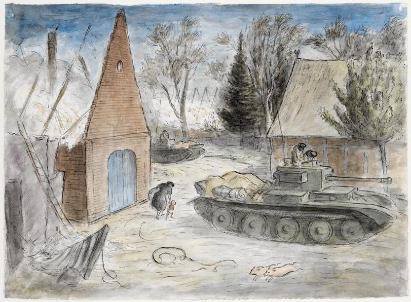 With the 8th Hussars in Germany- Tanks in a burning village image: Two British tanks driving through a German village street with a burning barn to the left of the composition. A woman and small child run across the road.